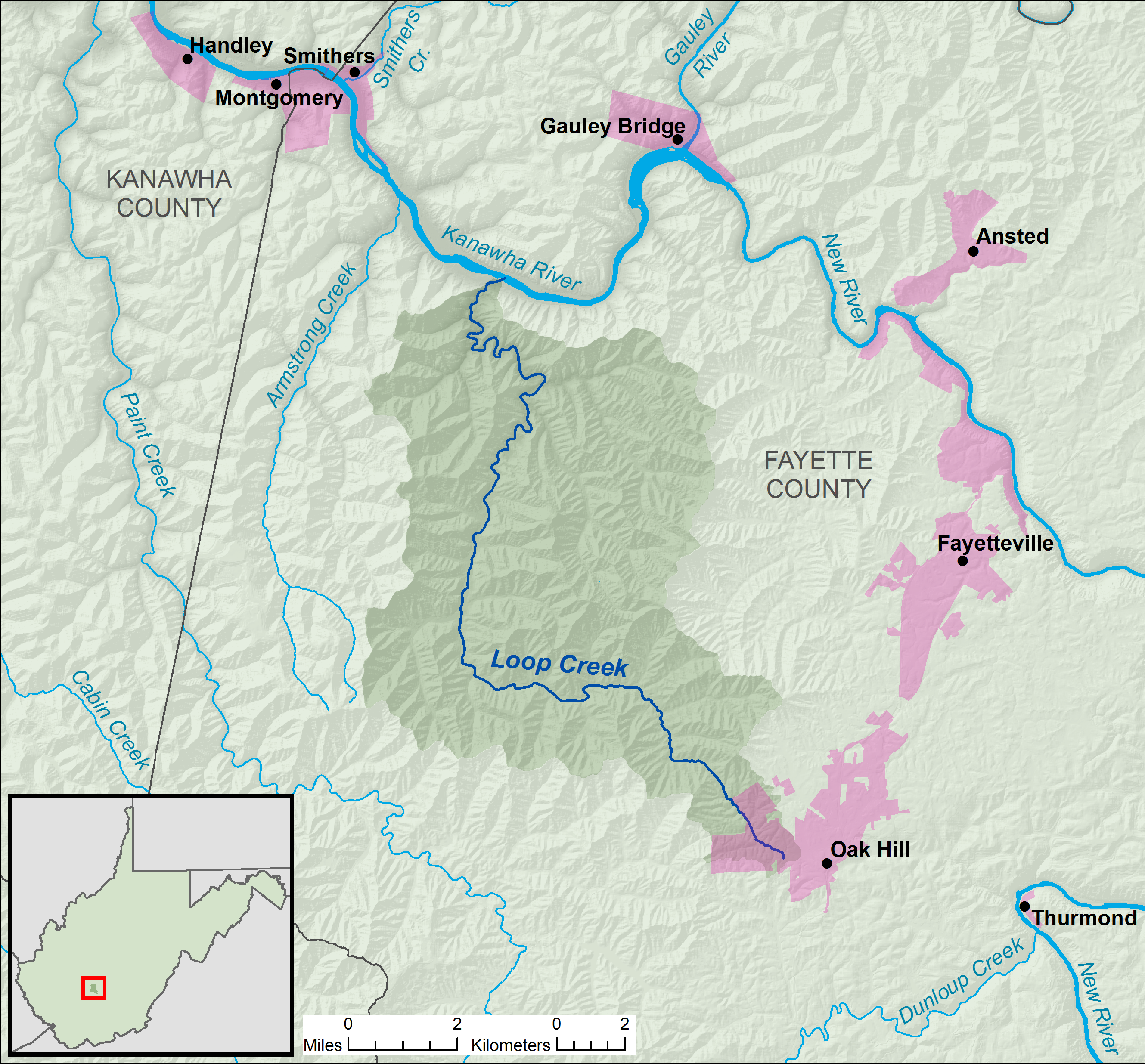 A map of Loop Creek and its watershed (USGS HUC-12 code 050500060301), in Fayette County, West Virginia.